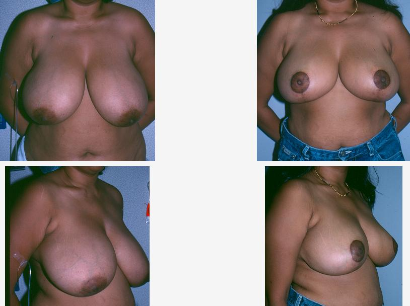 Breast reduction: pre-operative and post-operative views; front and three-quarter views respectively.